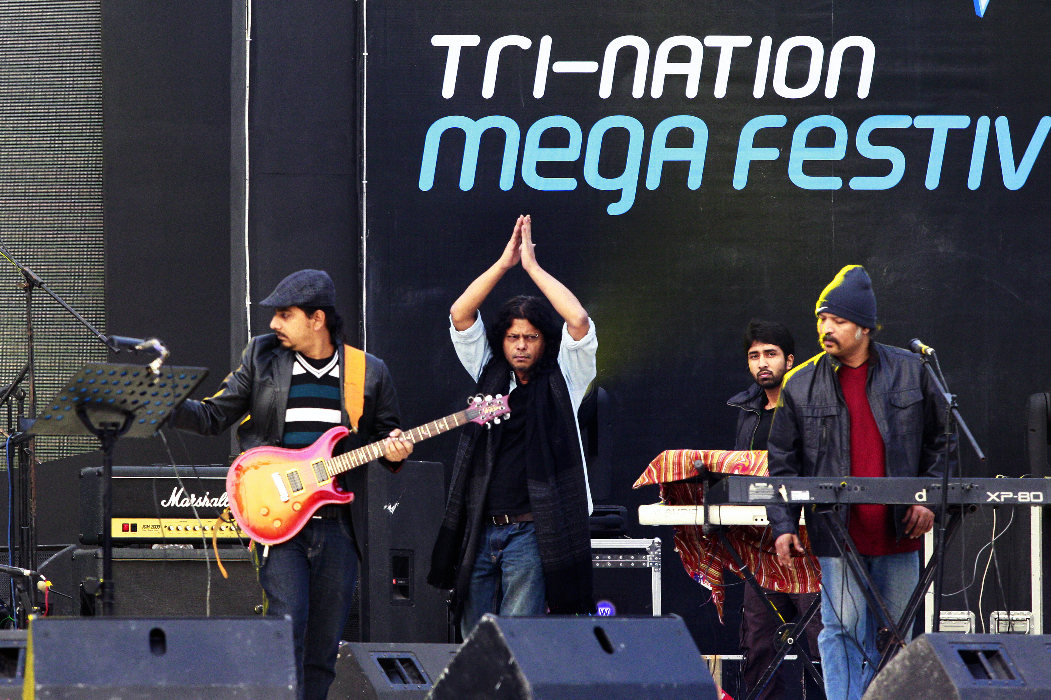 Faruq Mahfuz Anam in Tri-Nation Mega Festival: Bangladesh, India, Pakistan held in Bangladesh Army Stadium